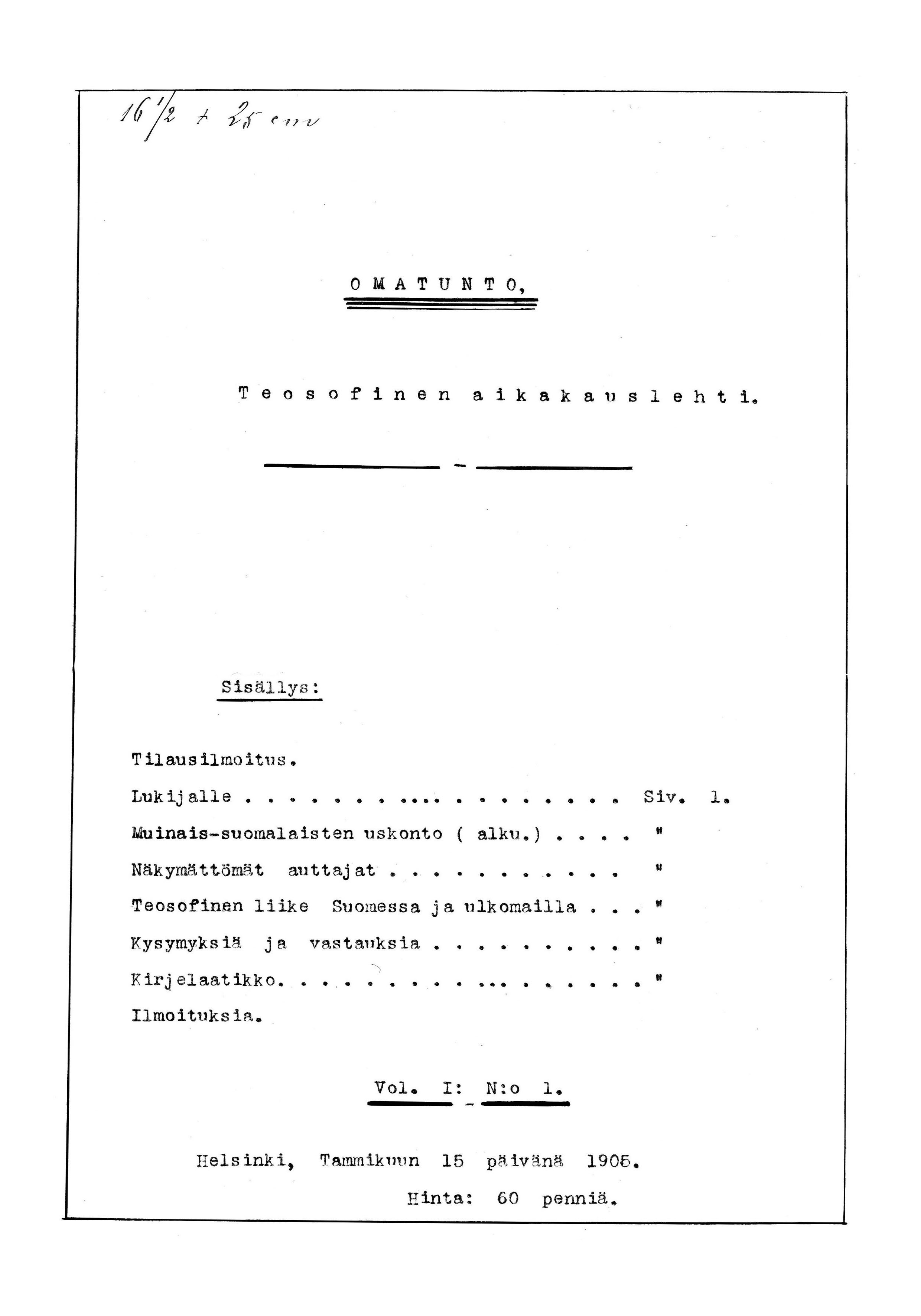 Cover of Omatunto-magazine